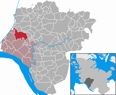 This map shows the area of the municipality Neuendorf-Sachsenbande in the Kreis (district) Steinburg, Schleswig-Holstein, Germany.